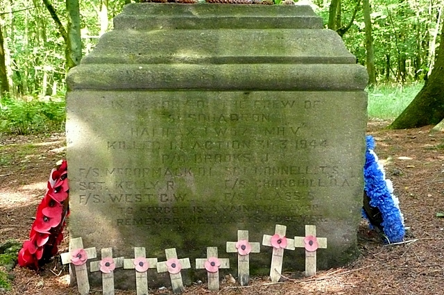 Monument in Cowleaze Wood, near Lewknor, Oxfordshire, to the crew of an RAF Halifax Mk III bomber aircraft that crashed on 31 March 1944. The aircraft was LW579 of 51 Squadron RAF based at RAF Snaith in Yorkshire. It had taken part in a raid on Nuremberg and successfully returned to England, but seemed to be off course and for unknown reasons lost height and crashed into the hill. People who find the monument tend to put a fir cone on top, it being one of the nearest objects readily to hand.